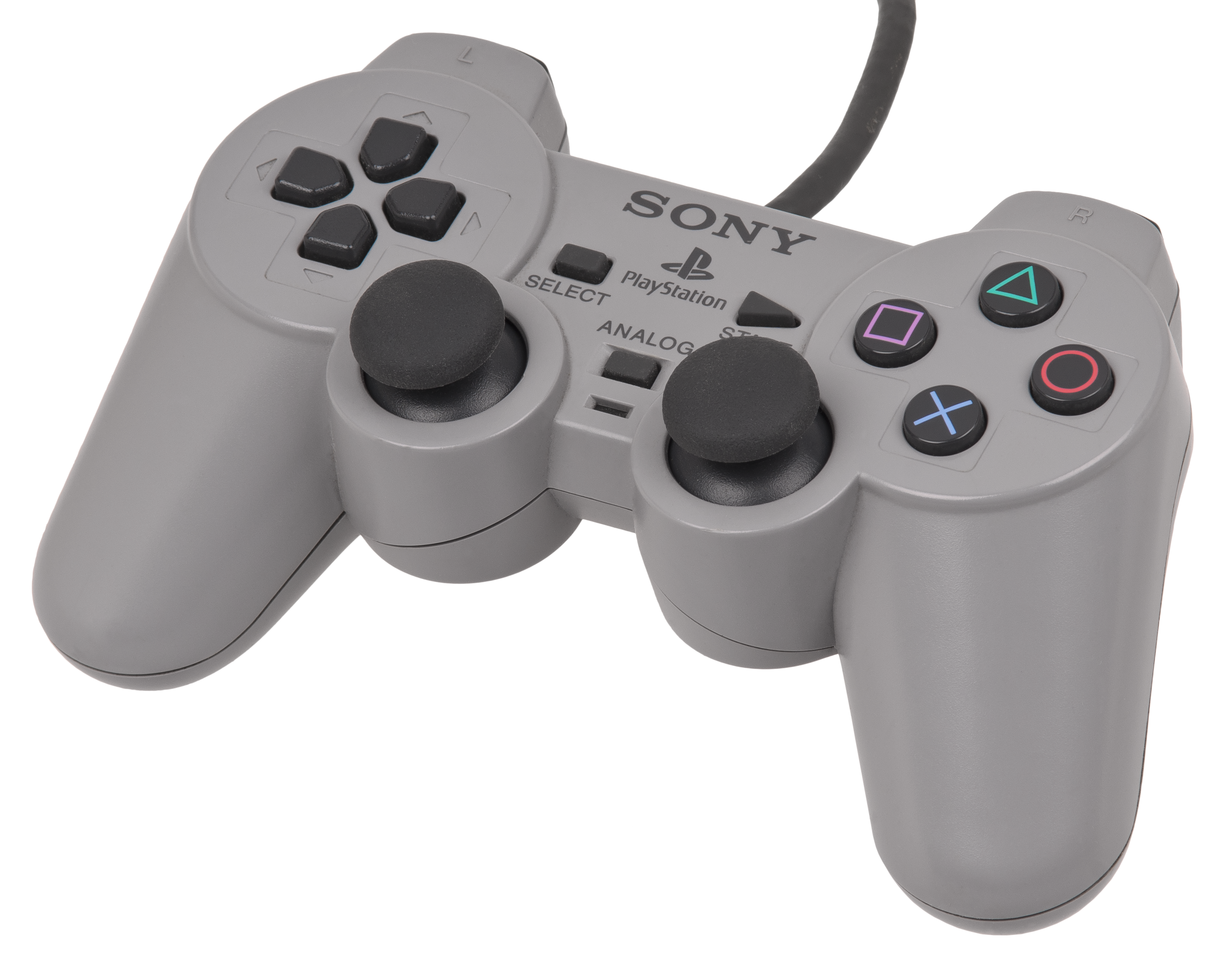 A Sony PlayStation DualShock controller.